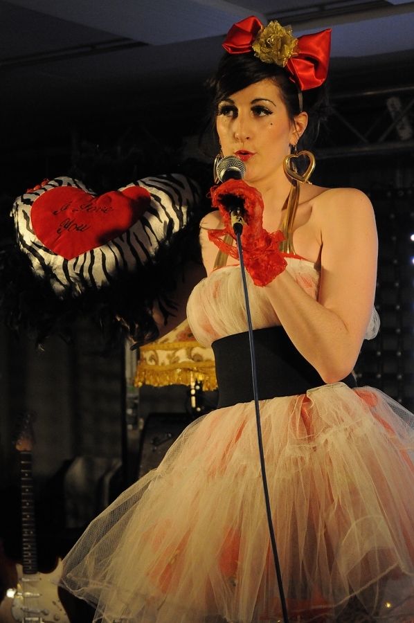 Czech band Toxique on Febiofest Music Festival 2009